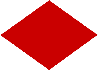 Formation patch for I Canadian Corps. The original copyright would have been held by the Canadian Department of National Defence, but this expired 50 years after the patch design was adopted in 1942 (or earlier).